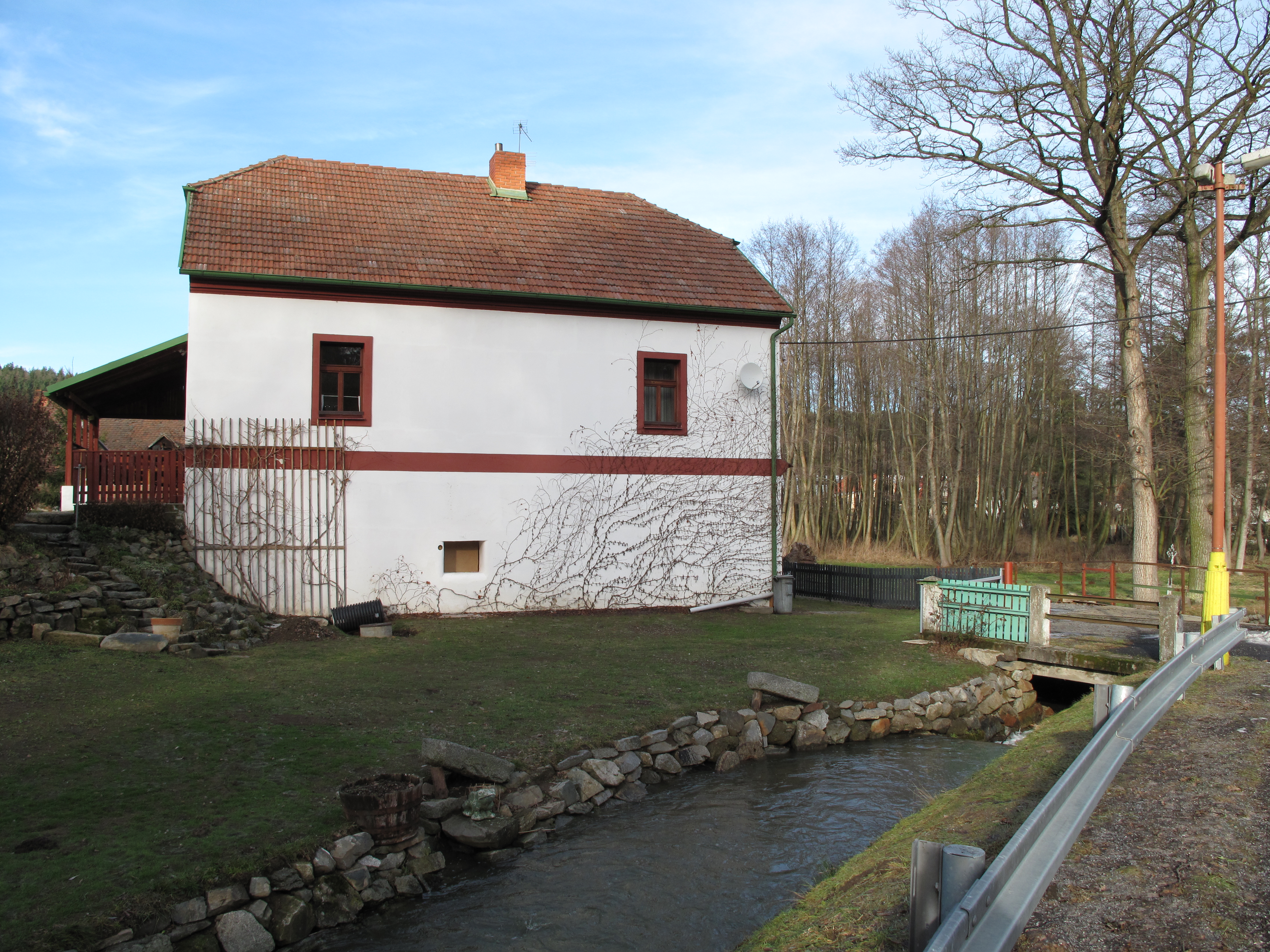 Mill in Čím village, Příbram District, Czech Republic.